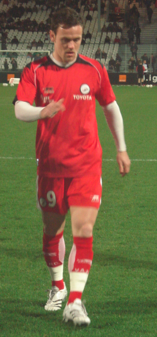 Savidan football player